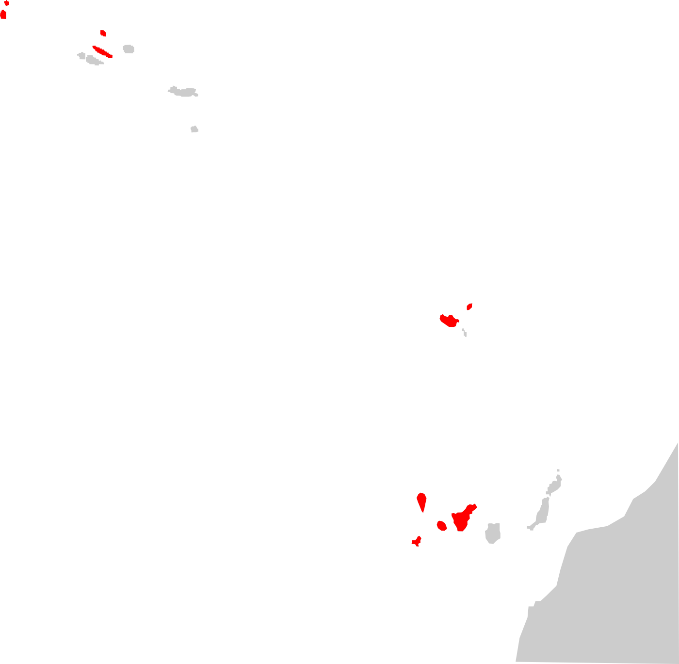 Distribution map of Pipistrellus maderensis.